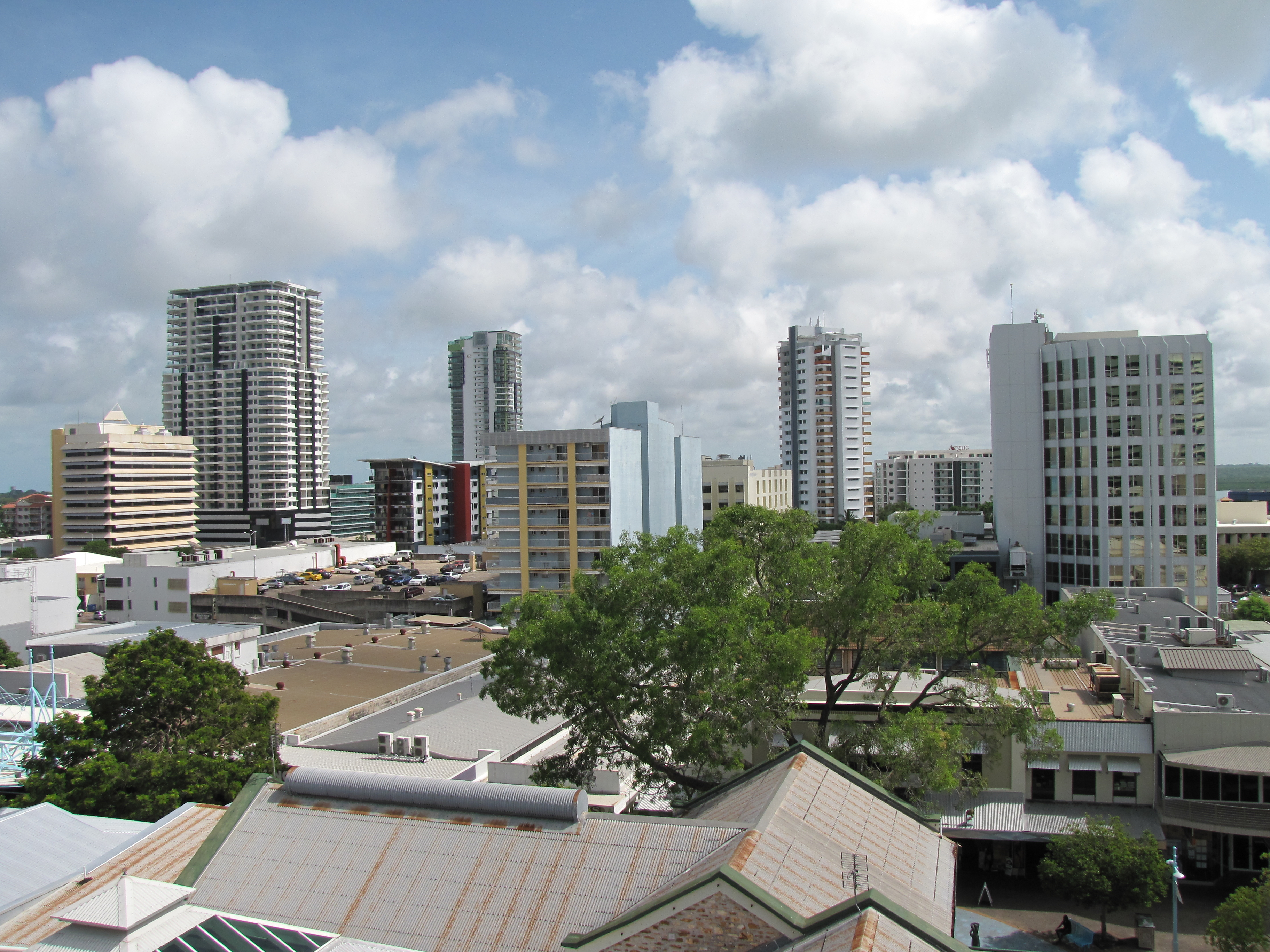 The changing face of Darwin as seen from the top of the West Lane Carpark in January 2010.